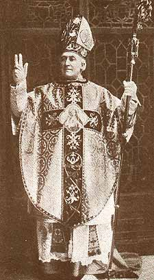 Summary A.H. Mathew